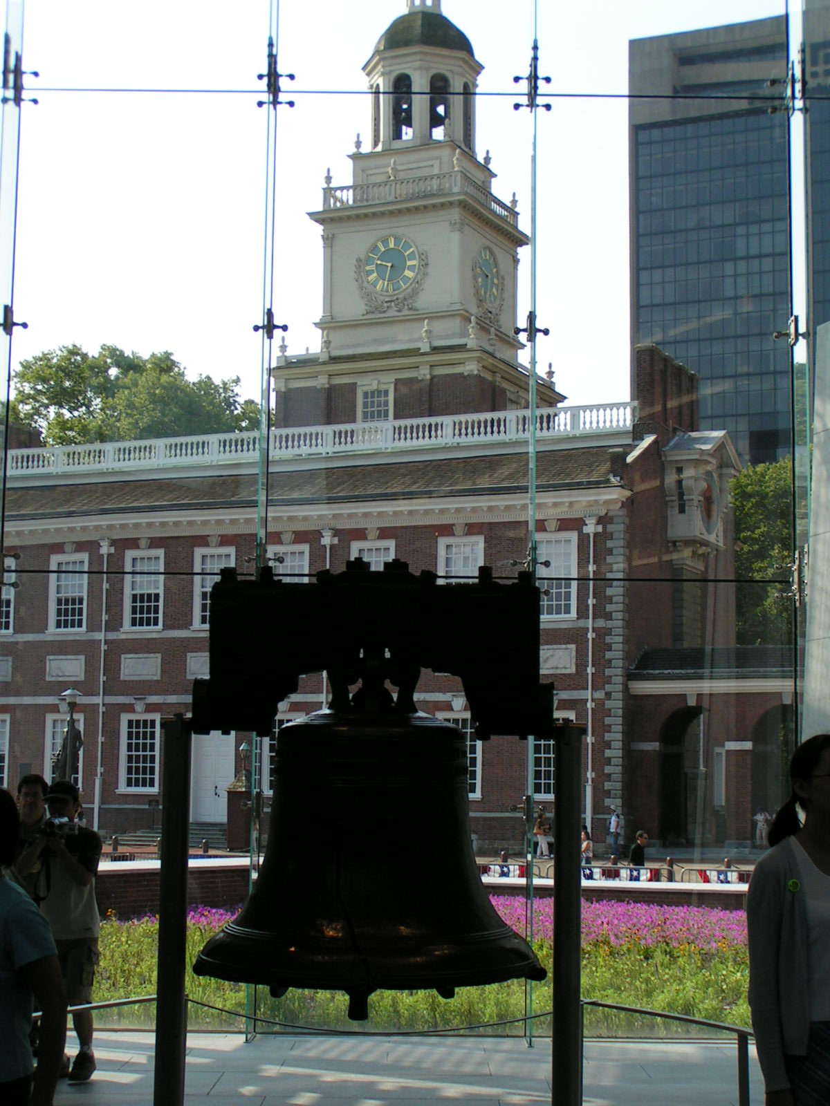 The Liberty Bell hangs in the Liberty Bell Center, with Independence Hall visible through the glass.